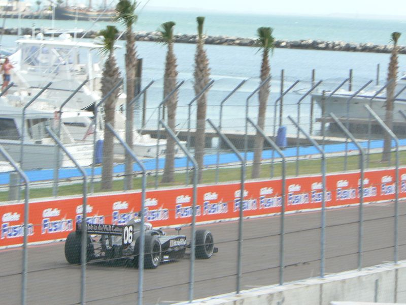 Graham Rahal practicing for the 2008 Honda Grand Prix of St. Petersburg. He would win the race the following day.